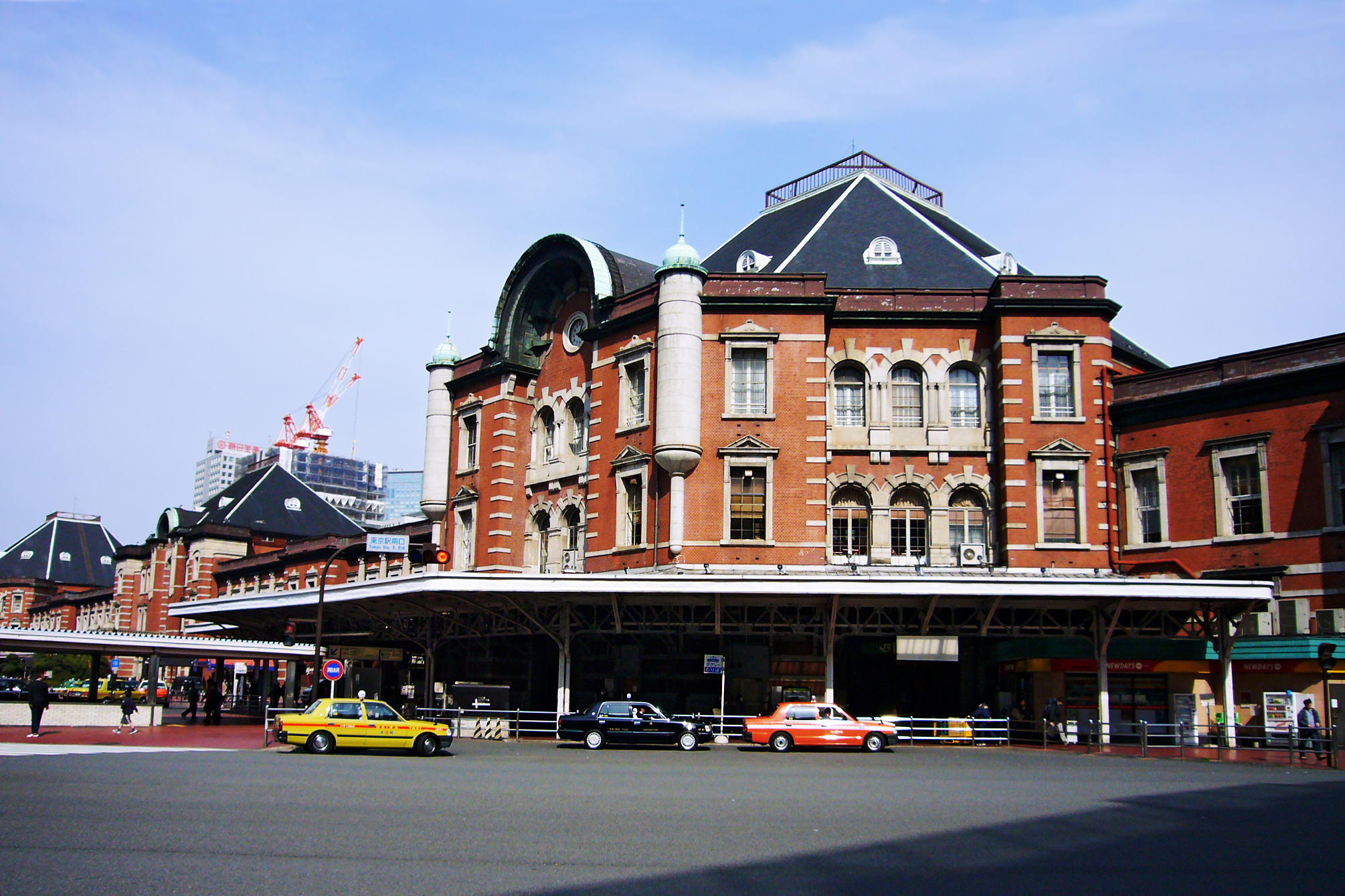 Facade of the Tokyo Station (Marunouchi building) (built 1914) — in 2006 before restoration of domes.